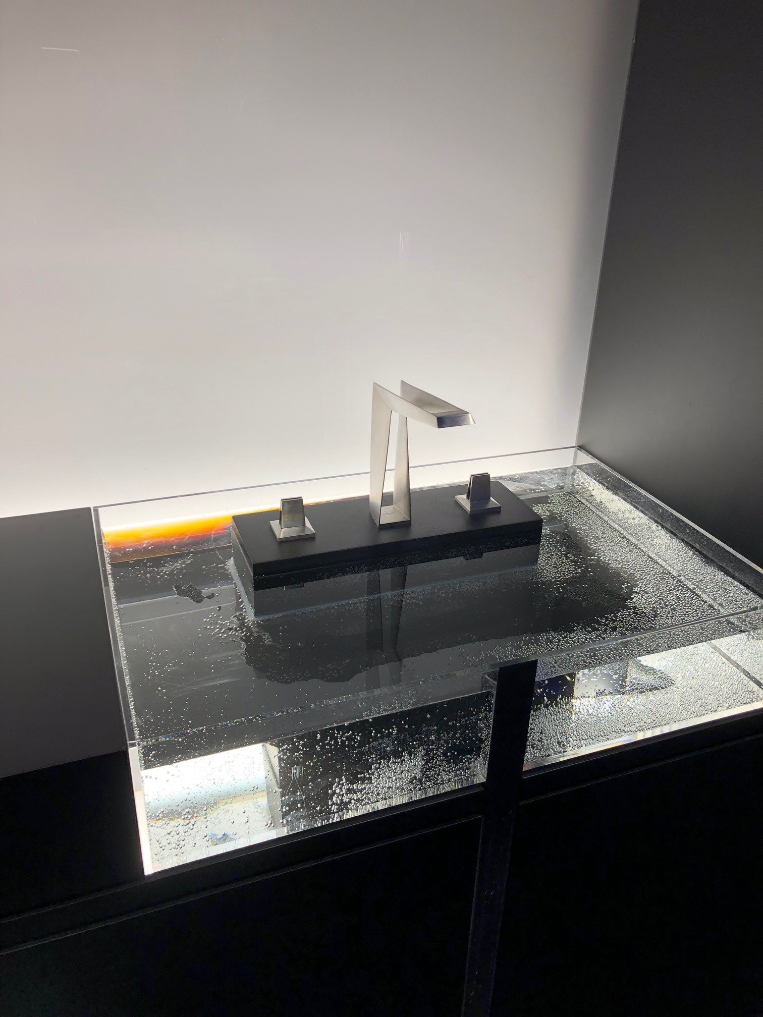 Faucet manufactured in a metal 3D printer first introduced at ISH 2019